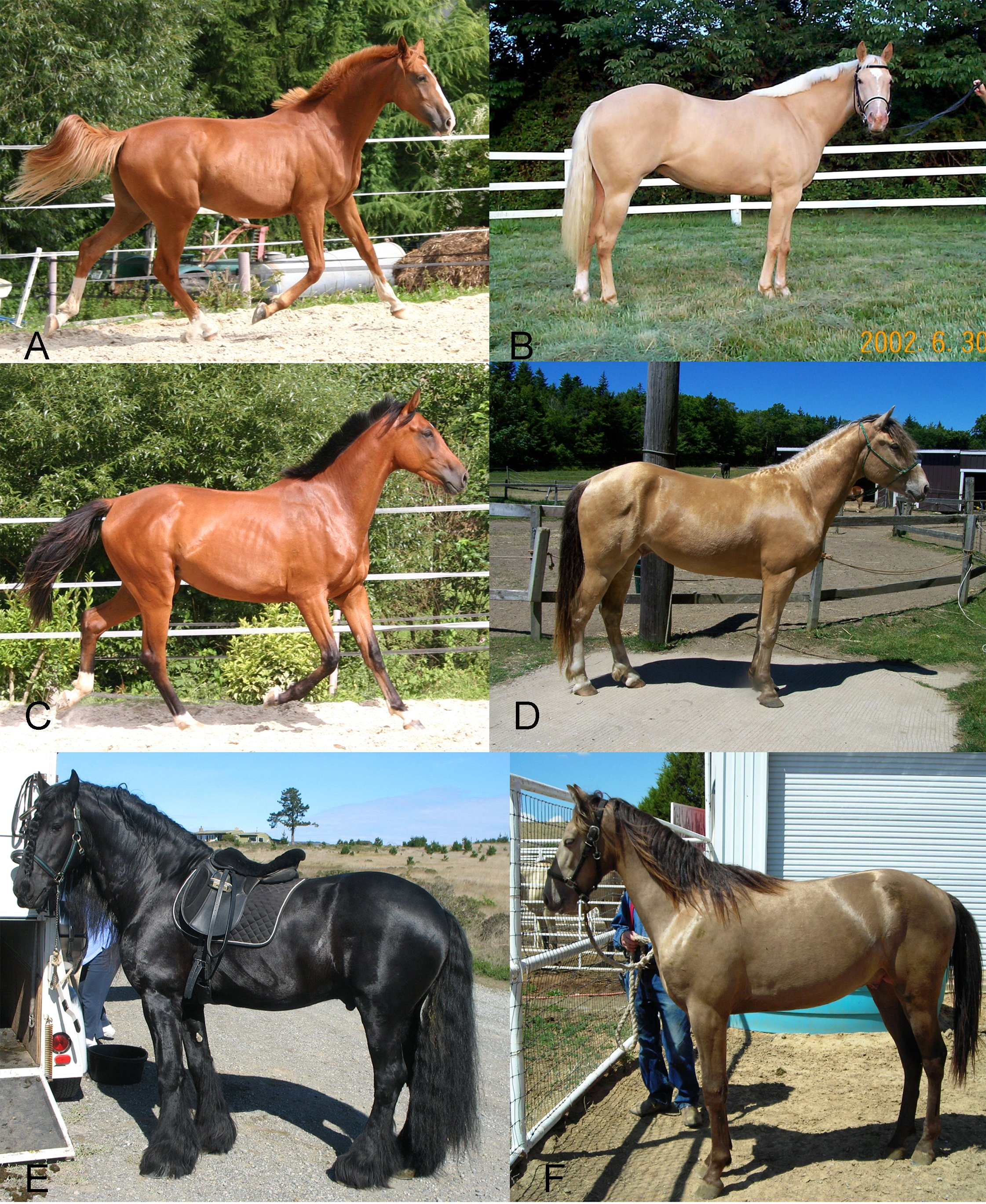 A) Chestnut – horse only produces red pigment. B) Chestnut diluted by Champagne=Gold Champagne. C) Bay – black pigment is limited to the points (e.g. mane, tail, and legs) allowing red pigment produced on the body to show. D) Bay diluted by Champagne=Amber Champagne. E) Black – red and black pigment produced, red masked by black. F) Black diluted by Champagne=Classic Champagne.